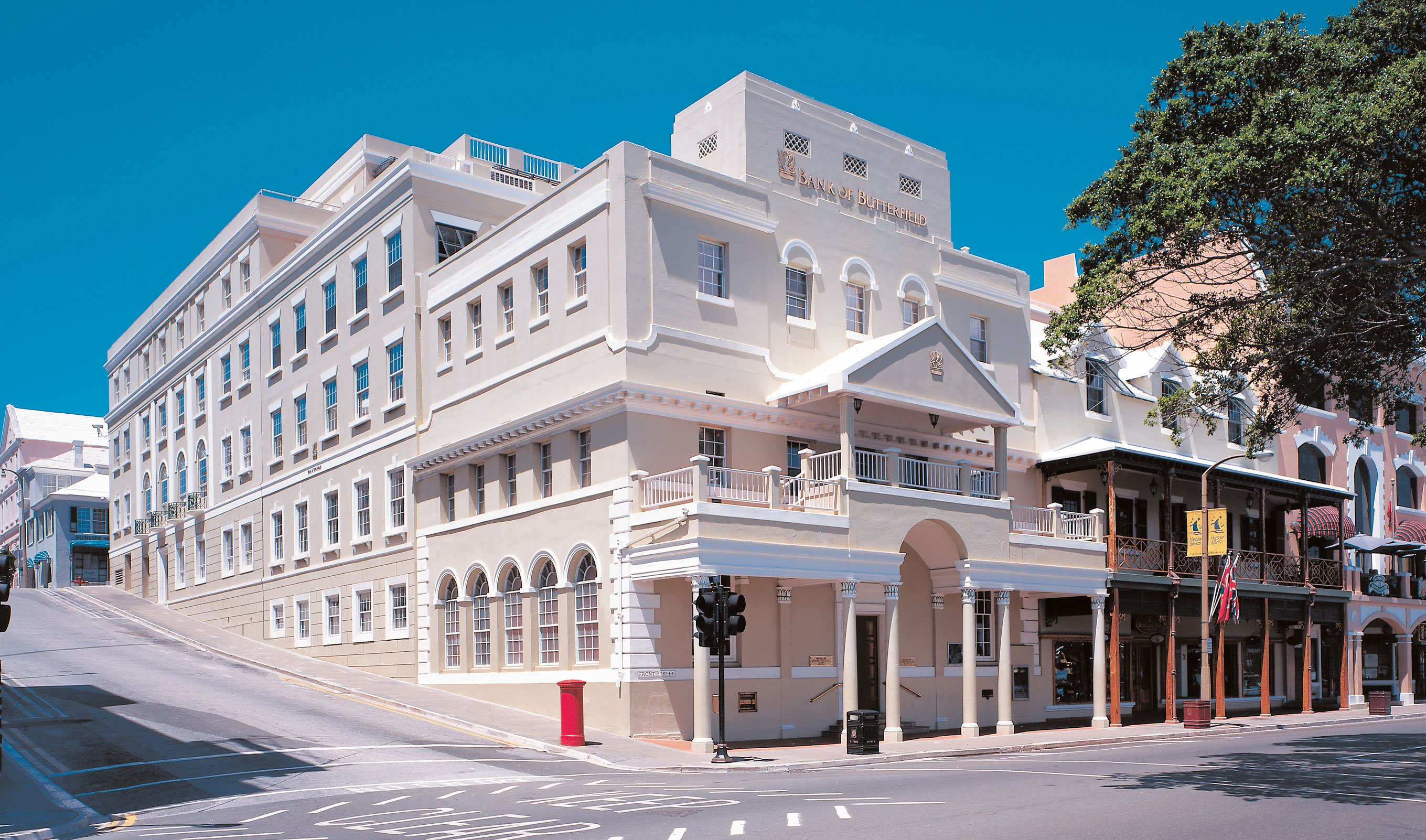 The Bank of N.T. Butterfield & Son Limited, 65 Front Street, Hamilton, Bermuda